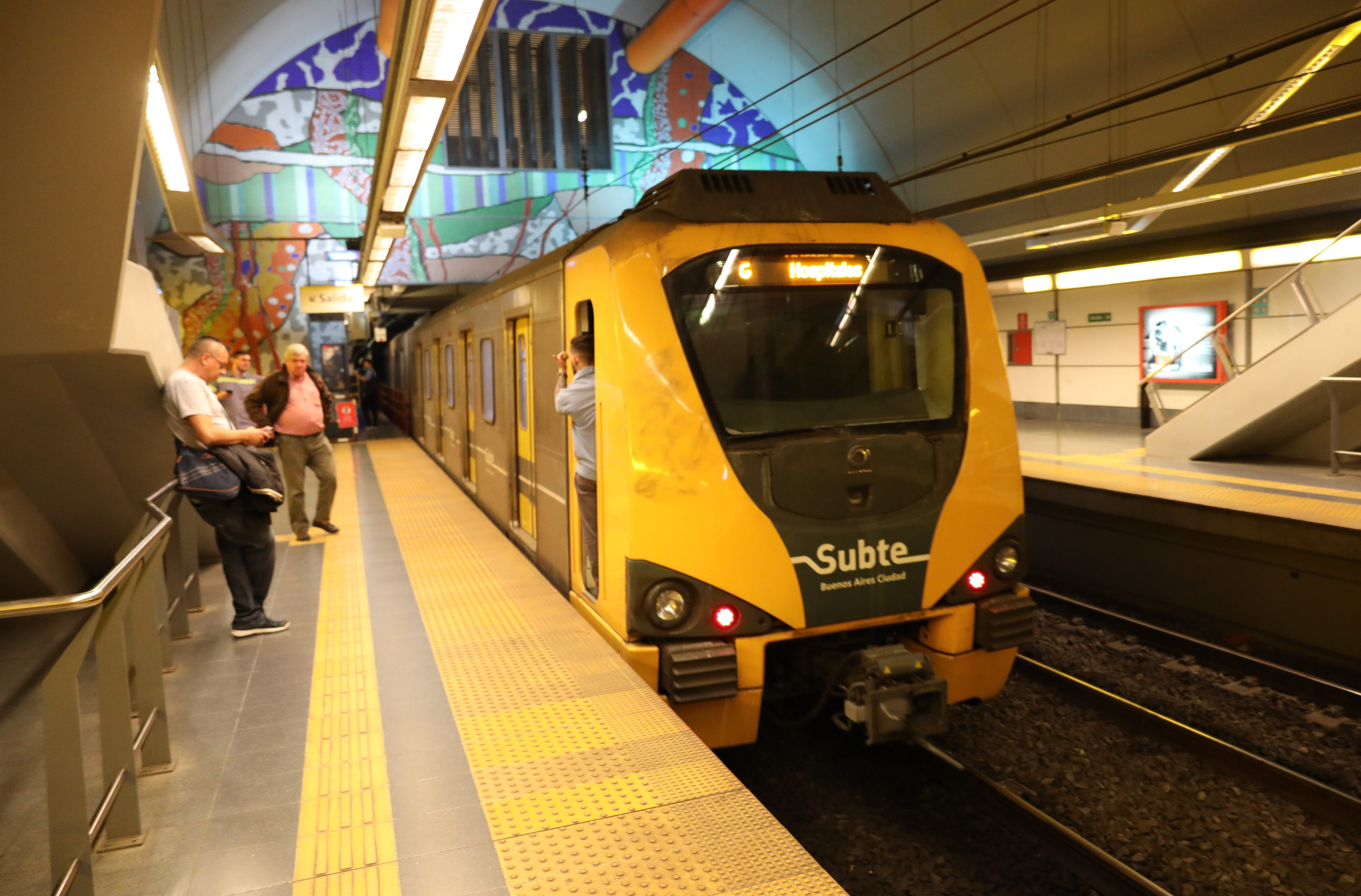 Las Heras station, Buenos Aires Underground, Argentina